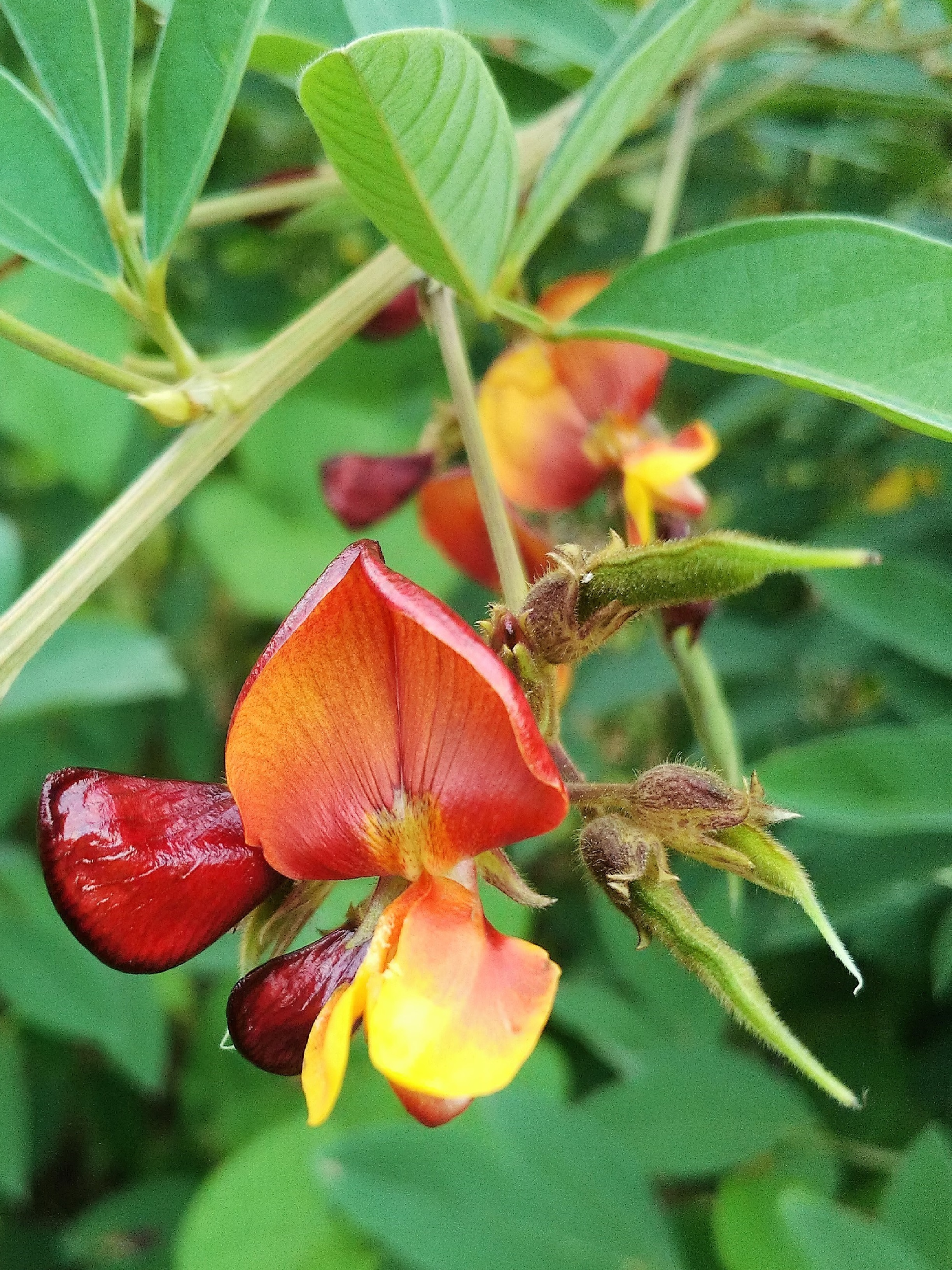 Pigeon-pea